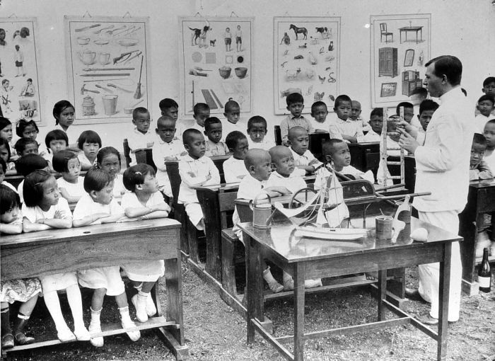 Reproduction from negative. Beginning in 1892 education for the natives was split. First were schools for the nobles (priyayi) and important local figures, while others for the general native populace followed. In 1907 the curriculum for the first class of schools was made more western. These schools, in Dutch, were called Dutch-Native Schools (HIS) or Dutch-Chinese Schools (HCS, pictured). In 1939there were 279 HIS and 107 HCS.